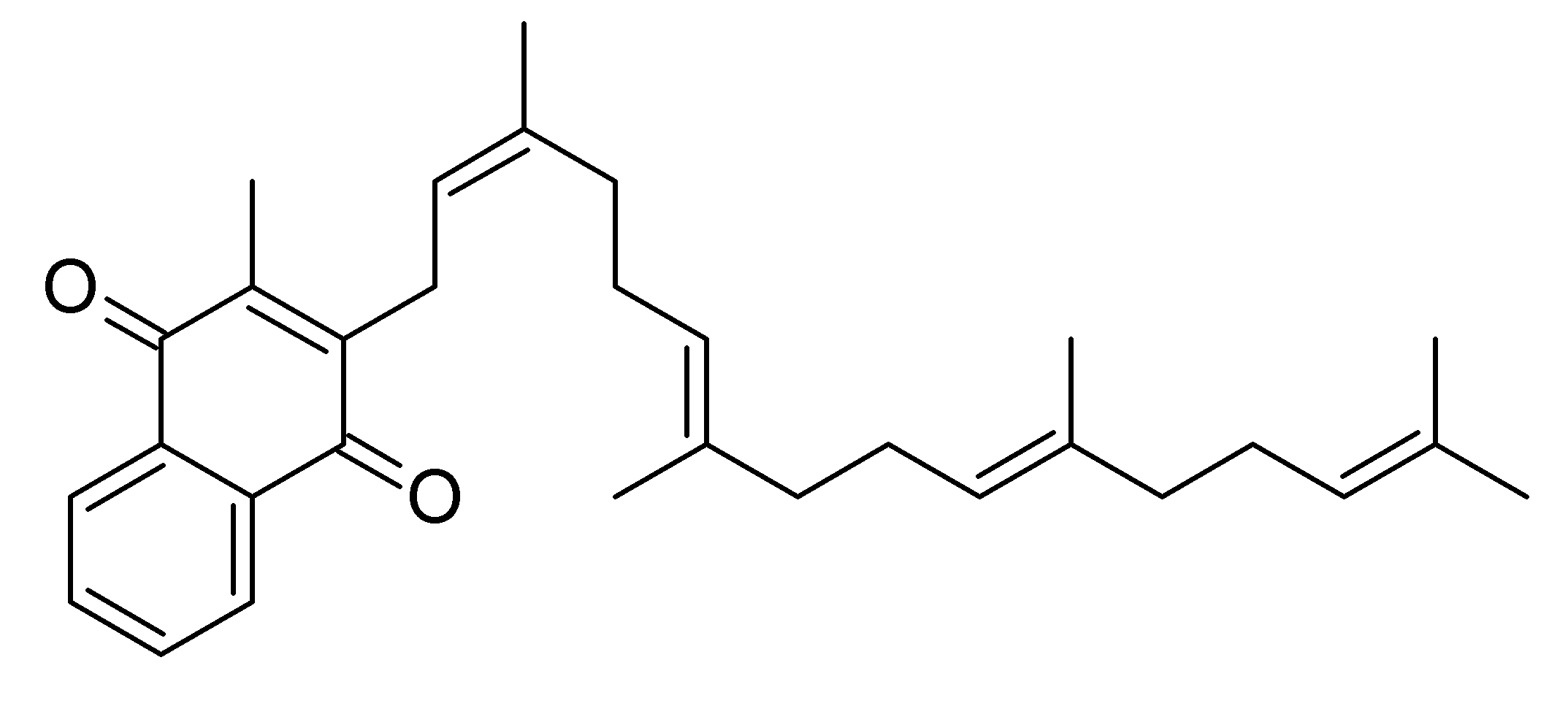 I made it myself using ACD/ChemSketch